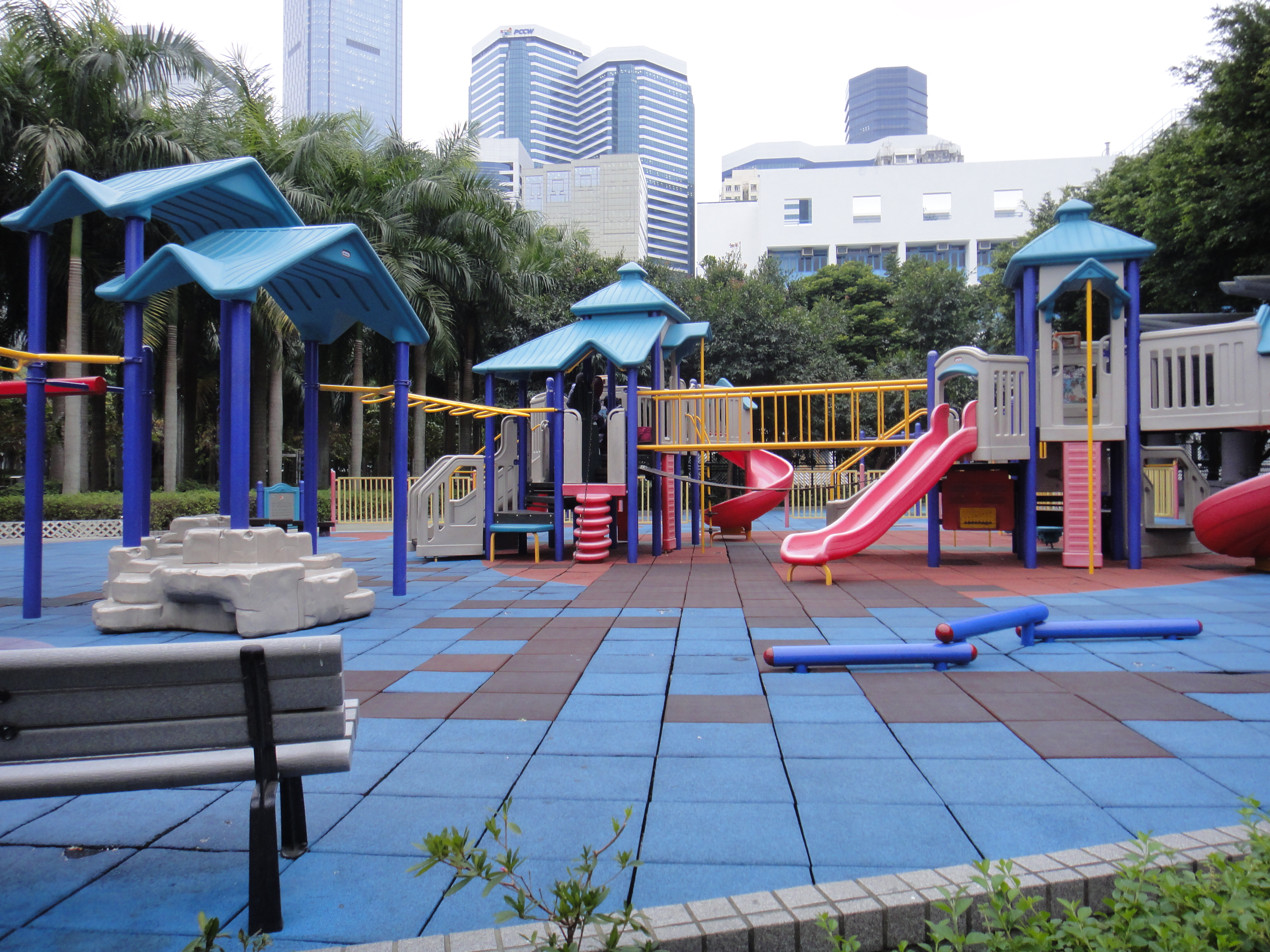 Quarry_Bay_Park_Children_Play_Area